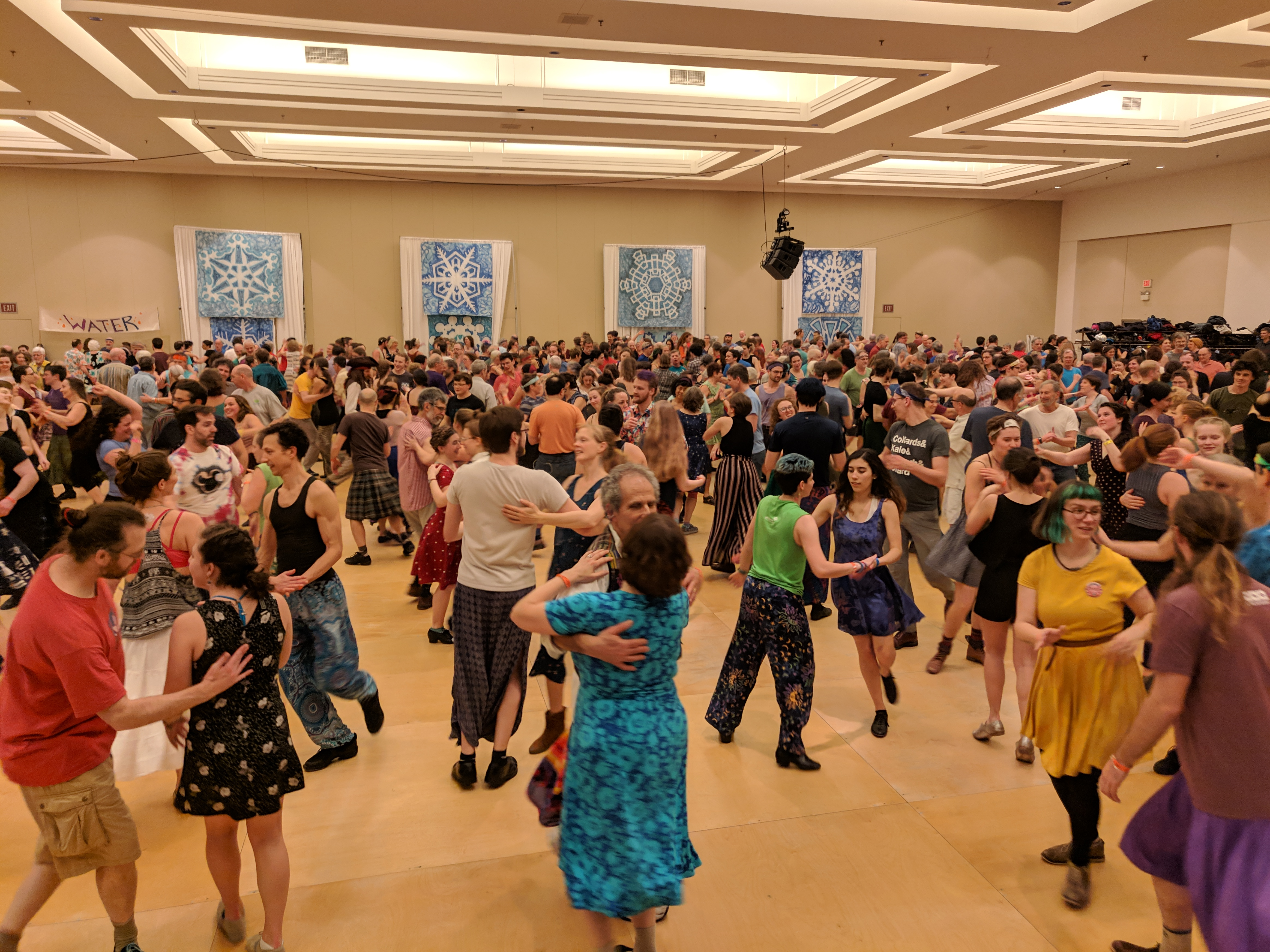 Contra dancers dance in the main ballroom at the 2019 Flurry Festival in Saratoga Springs, New York.